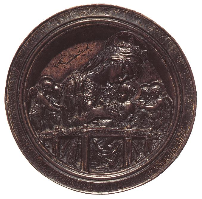 Chellini Madonna, recto before 1456 Bronze, diameter: 28,5 cm Victoria and Albert Museum, London